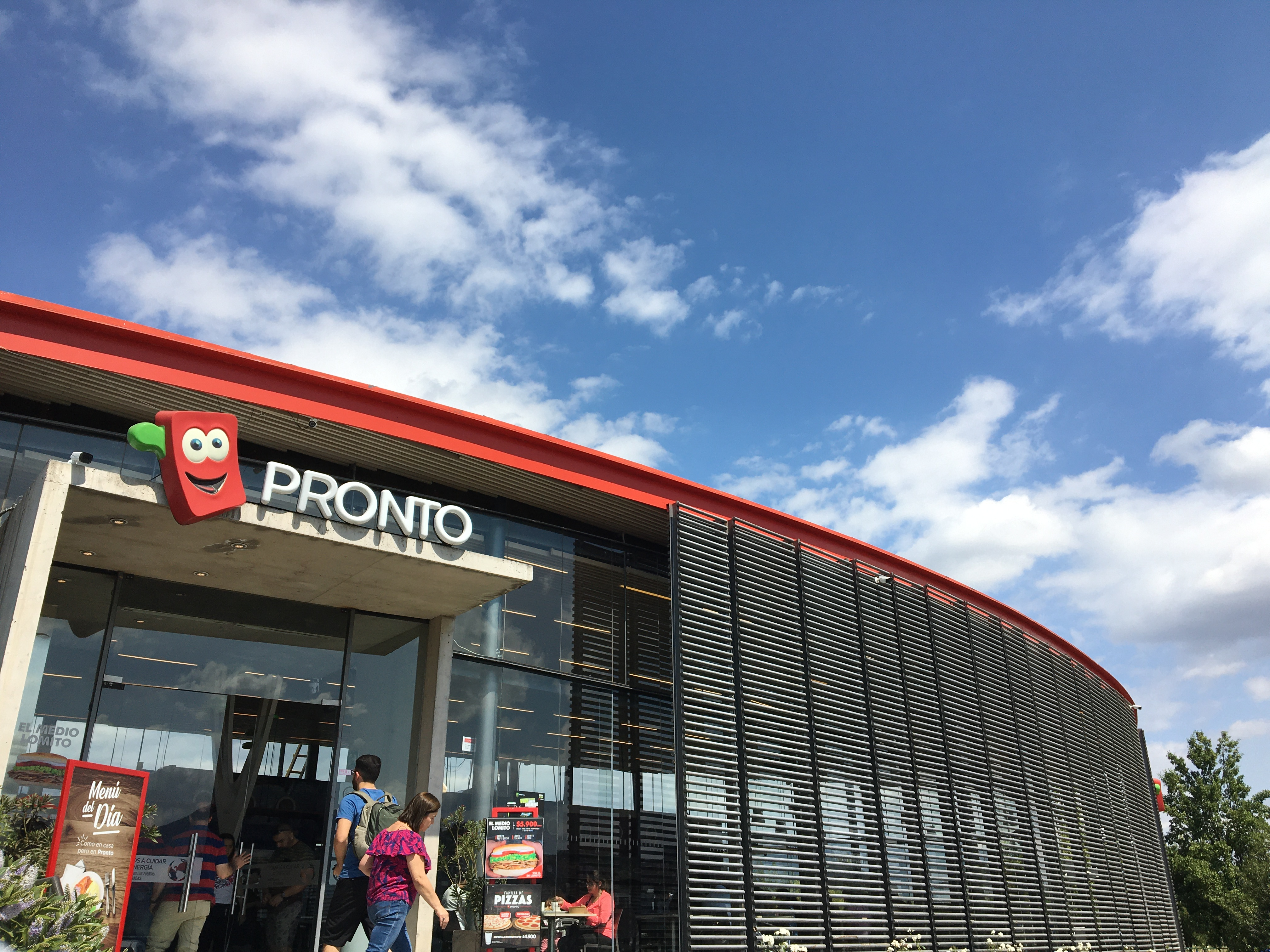 Pronto Copec Chile